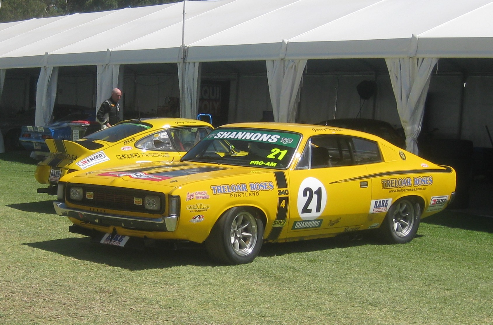 Chrysler VH Valiant Charger E55 of Garry Treloar. Round 1, 2014 Touring Car Masters, Adelaide Parklands Circuit.